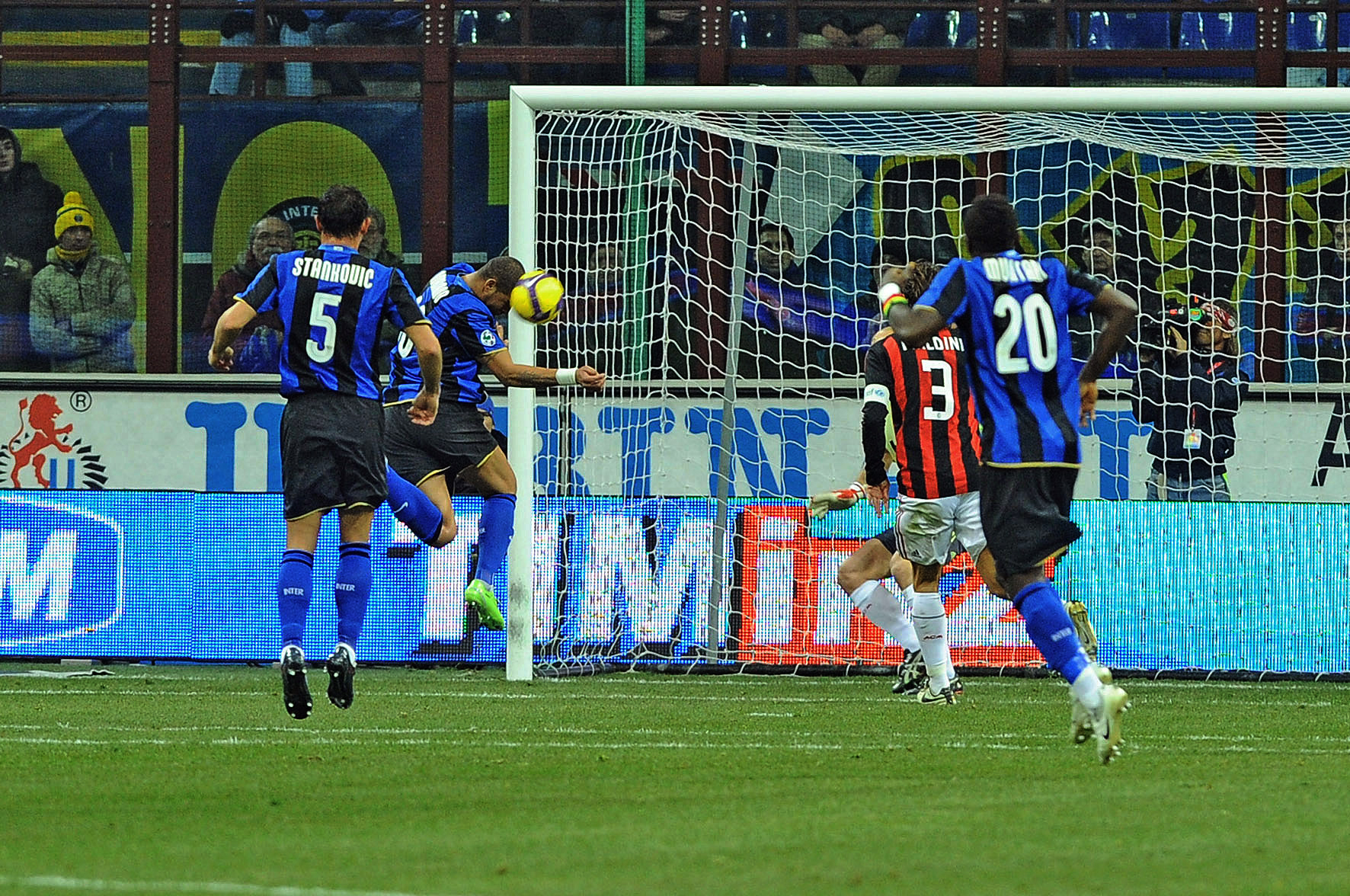 Adriano scores a goal for Inter against AC Milan in the Milan Derby, 15 February 2009 at Giuseppe Meazza Stadium.